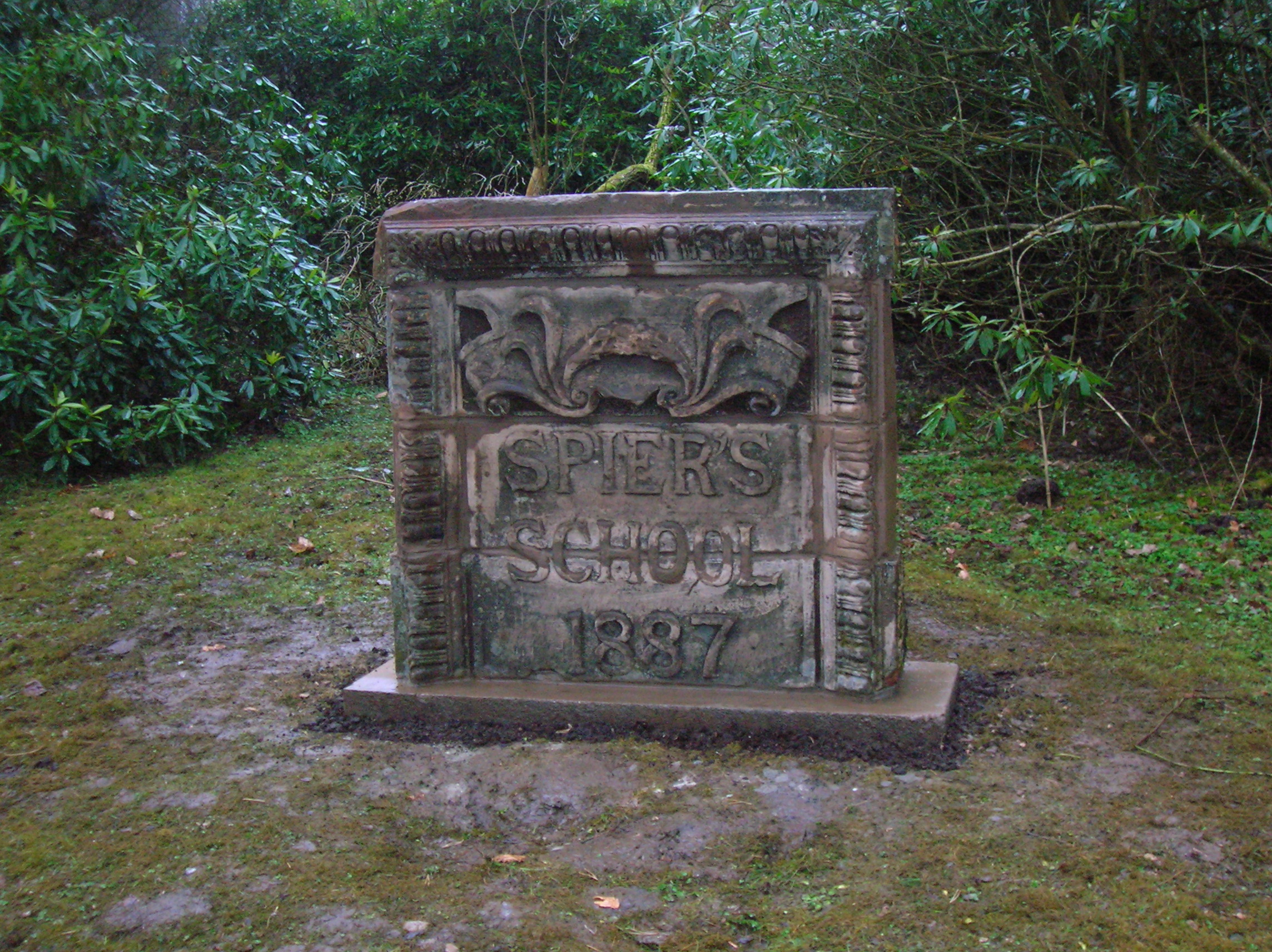 Spier's School stones retrieved from Garnock Academy and rebuilt at Spier's, North Ayrshire, Scotland